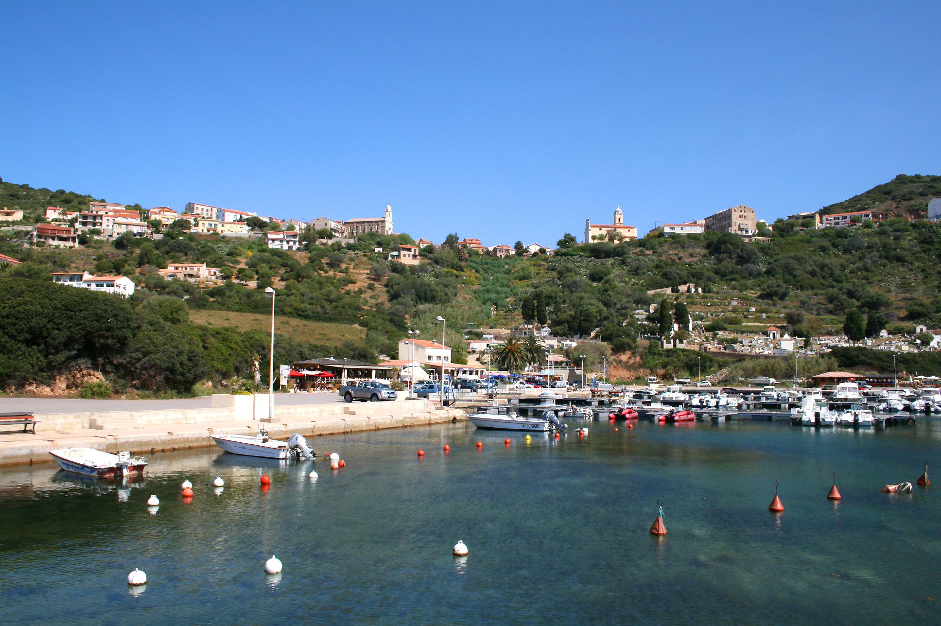 Cargèse (Corse-du-Sud) - France, the village and the port. Corsu: Carghjese (Corsica sutanna) Francia, u paese è u portu. Walon: Cardjèse (Corse-do-Sud) - France, li viyadje èt l'pôrt.